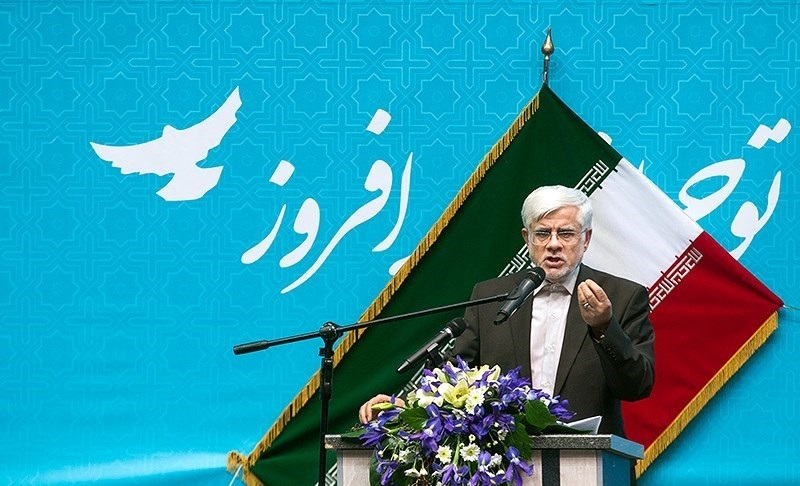 Mohammad Reza Aref in reformists meeting for 2016 election in Hejab sallon